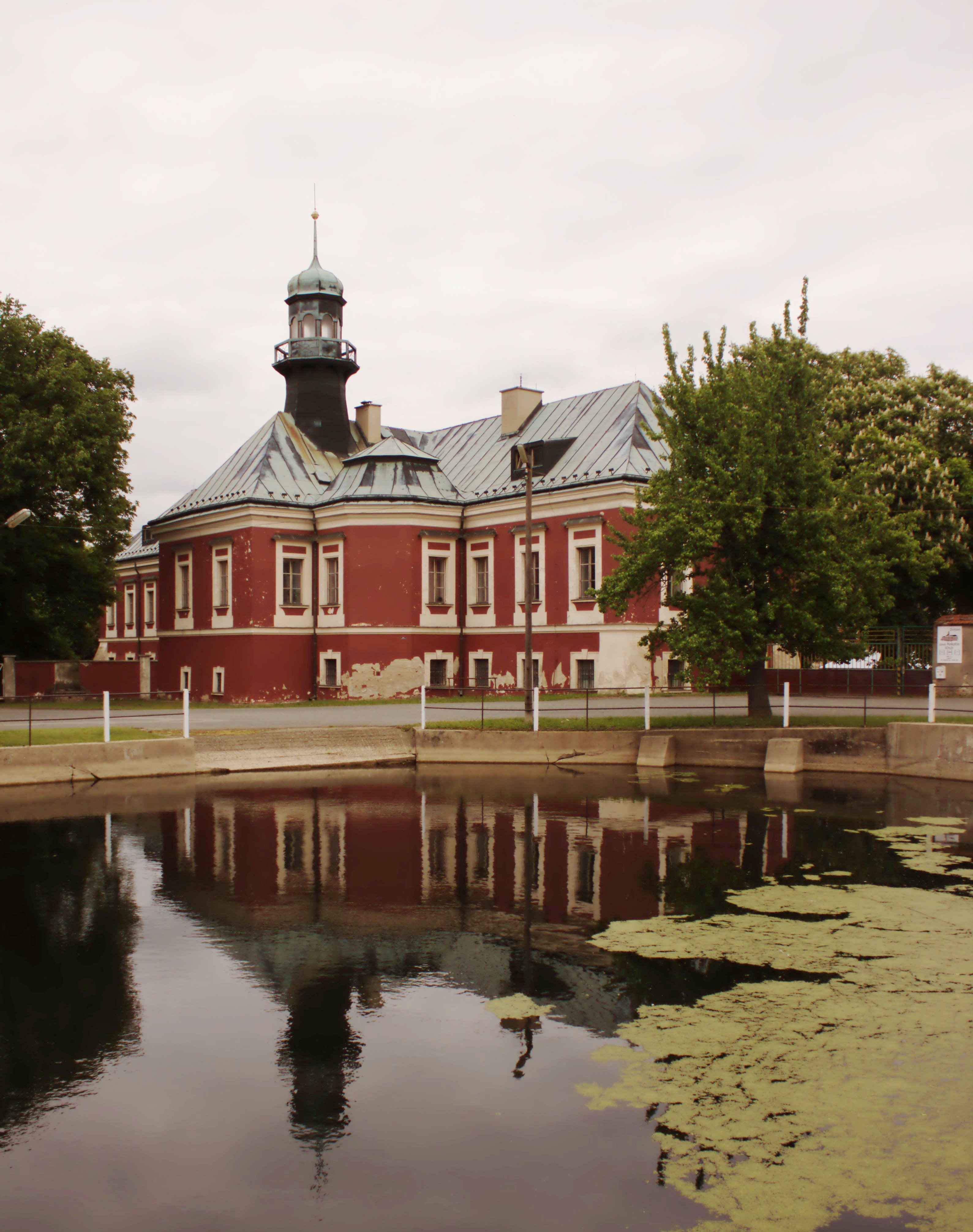 Village Kokořín, in Mělník District, Czec Republic Zámek Kokořín